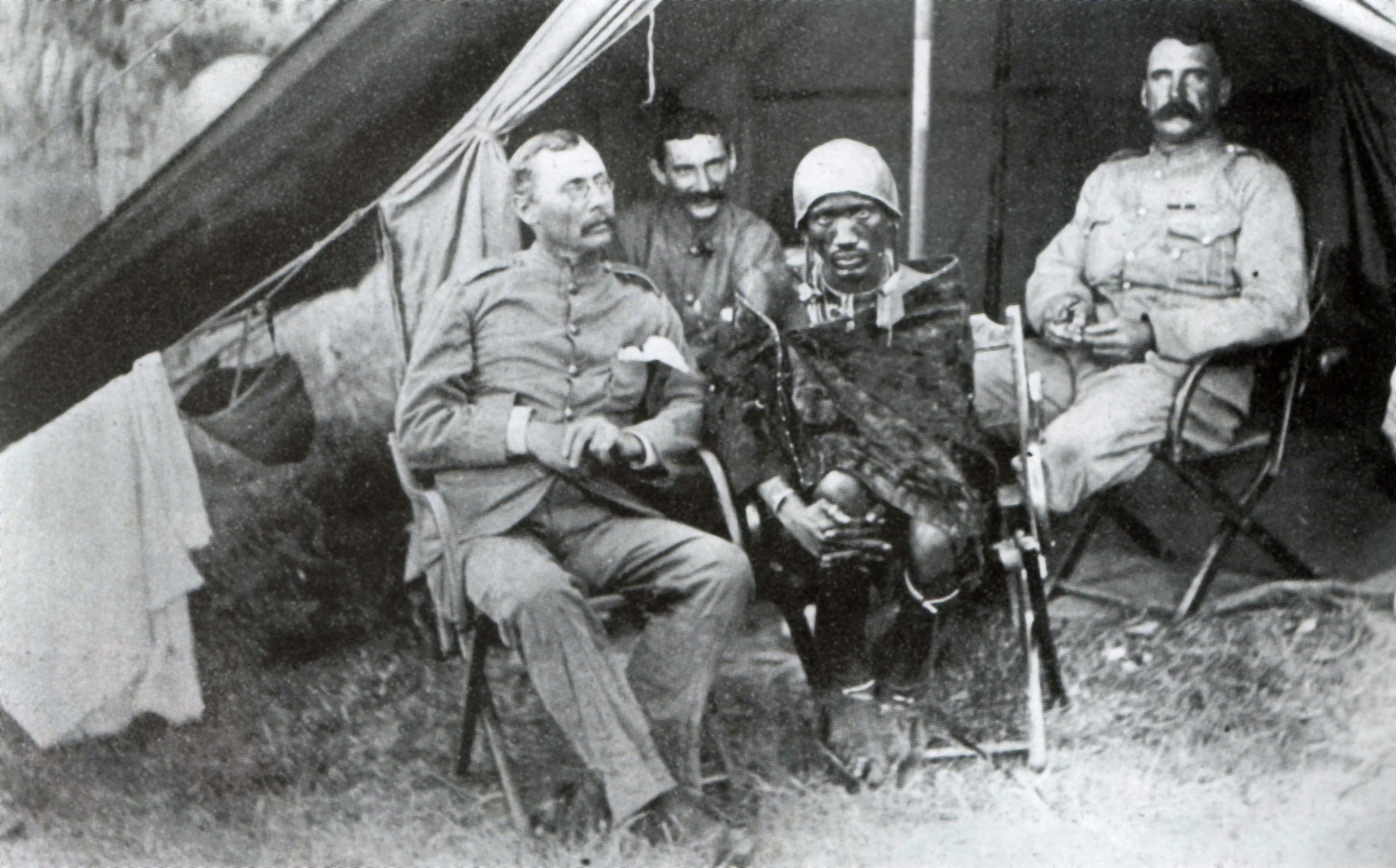 A photo of Lenana, the Chief Medicine-Man of the Maasai circa 1890. Pt Lenana (4,985m), the third highest peak, on Mount Kenya was named after him by Halford Mackinder. Mackinder made the first ascent of Mount Kenya in 1899. Lenana is sitting next to Sir Arthur Hardinge (the man wearing spectacles). Lenana was the son of Batian who was the previous Chief Medicine-Man. Batian is the name of the highest peak on Mount Kenya.